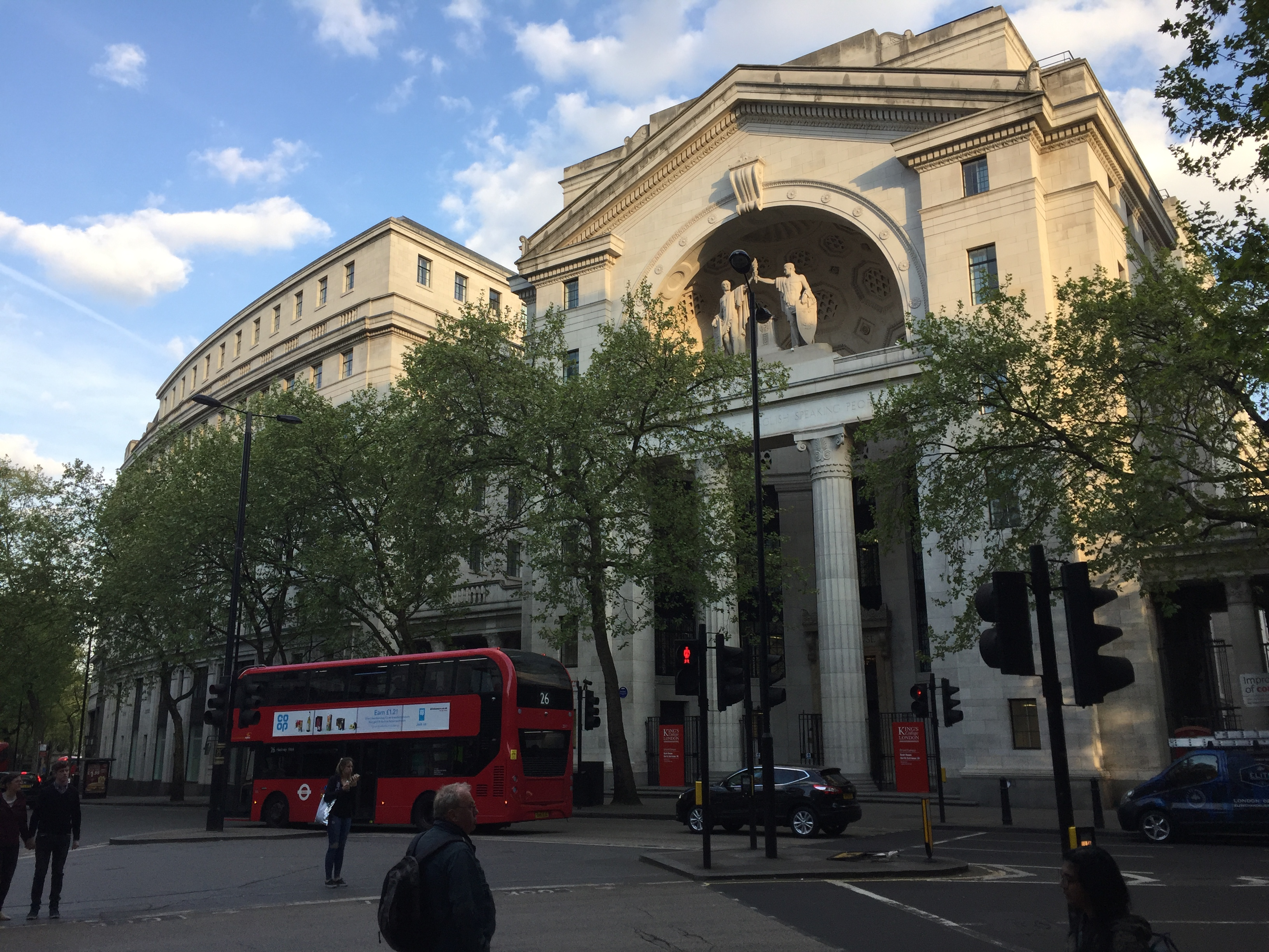 King's College London - Bush House Building (taken from Kingsway road)